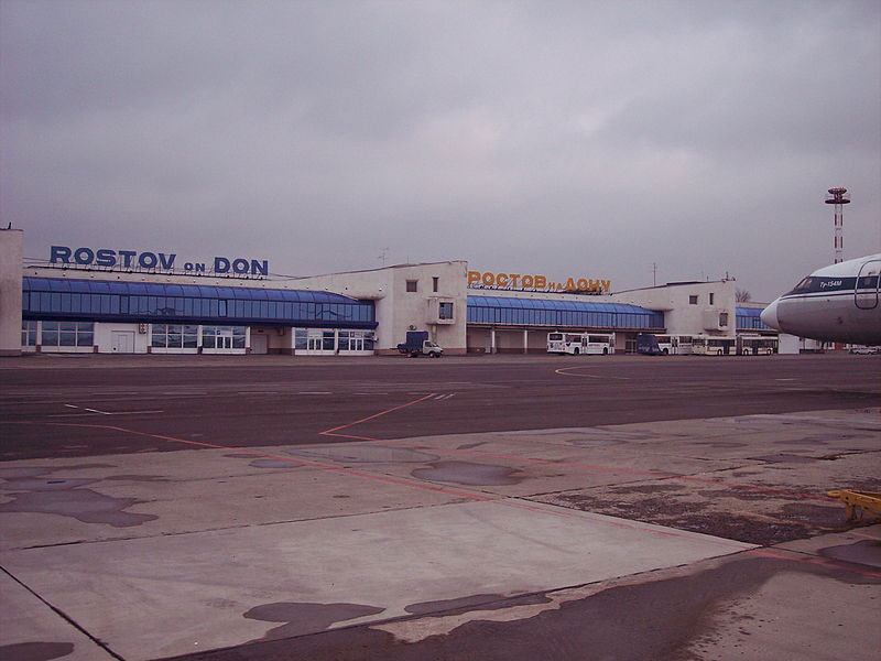 ROSTOV on DON AIRPORT,RUSSIA